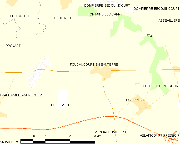 Map of French municipality Foucaucourt-en-Santerre